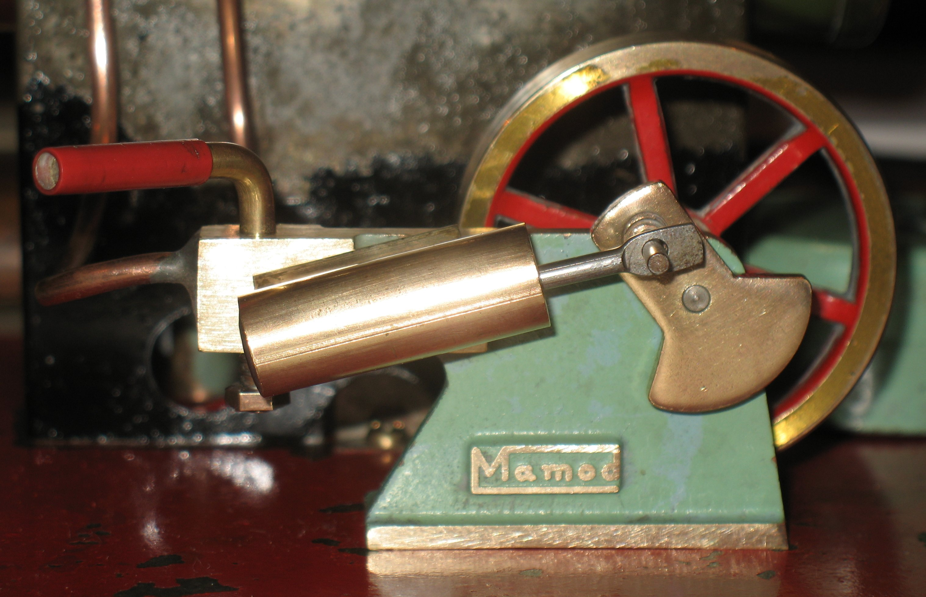 Simple oscillating cylinder steam engine as fitted to a Mamod SE2